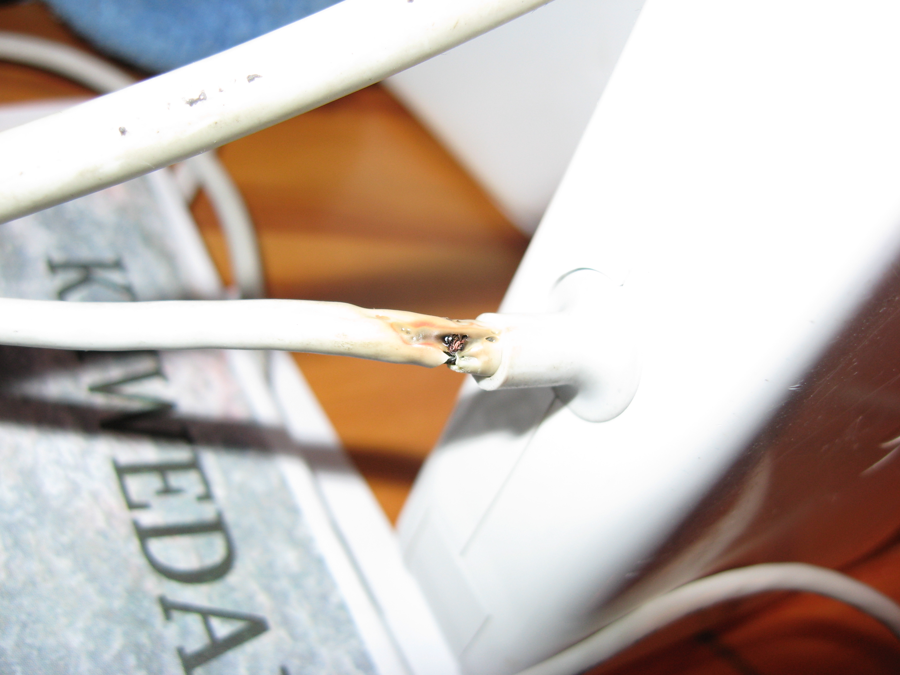 An Apple MagSafe adapter, after it spontaneously shorted and melted through the plastic casing near the brick.